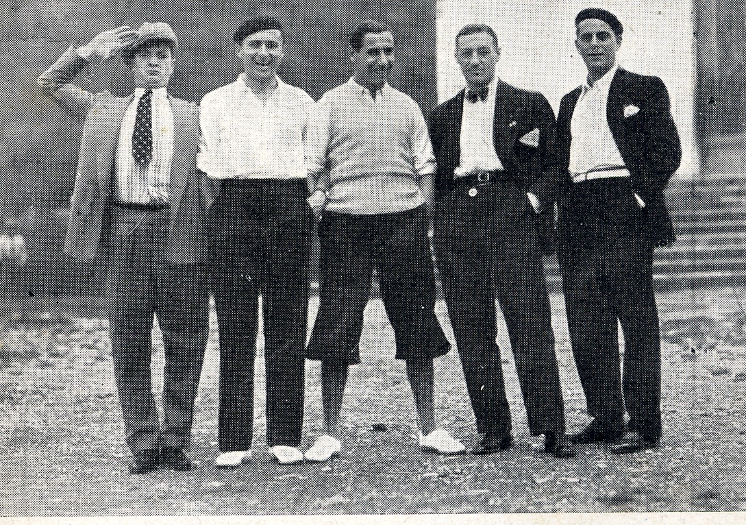 From left to right: F.B.C. Juventus' footballers Renato Cesarini, Pedro Sernagiotto "Ministrinho", Gianpiero Combi, Umberto Caligaris and Juan Maglio in the 1931–32 season.